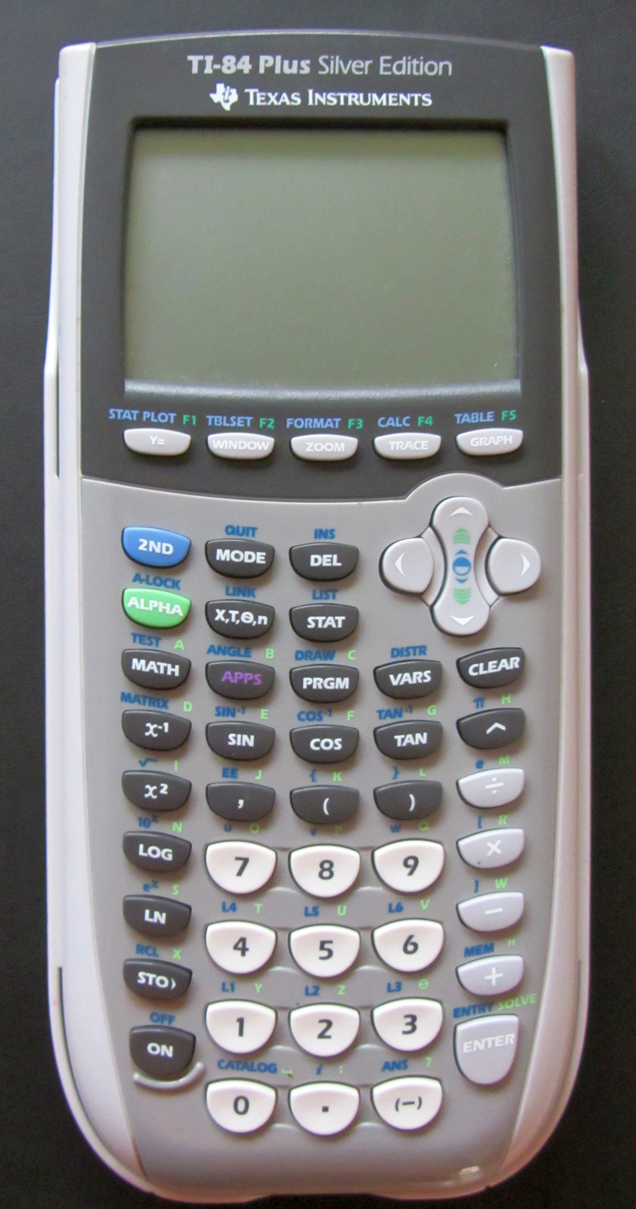 TI-84 Plus silver edition, graphing calculator on dark background